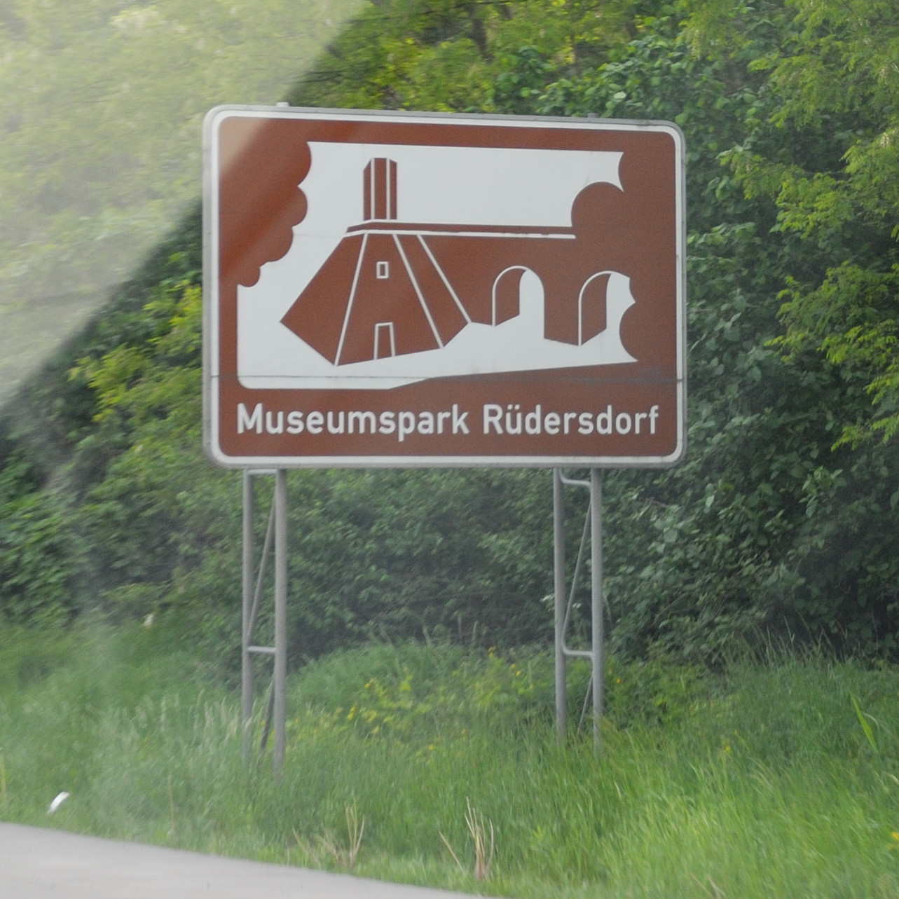 Road sign for open air museum Rüdersdorf, Brandenburg. Road shot from A 10.